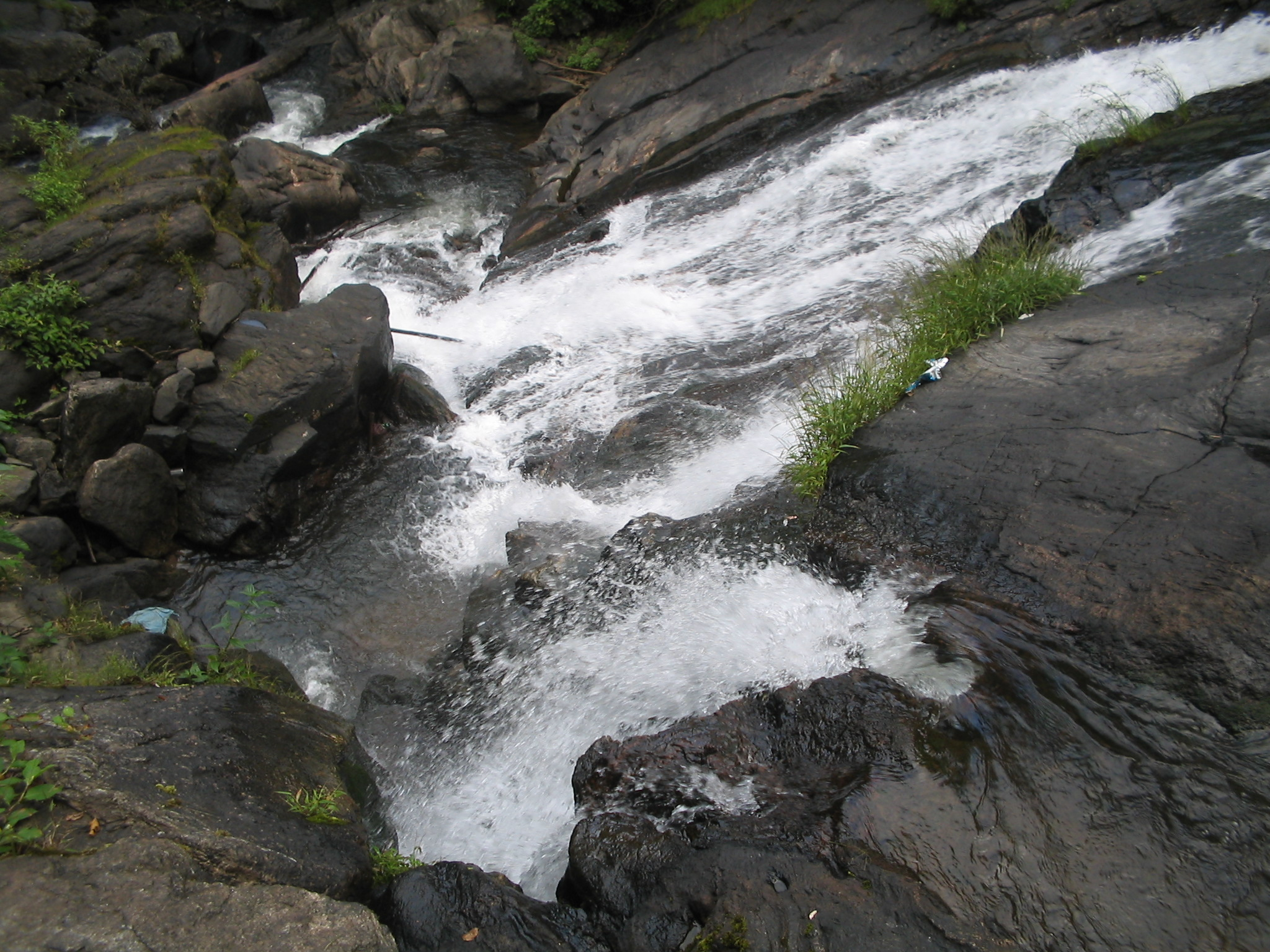 View of the Irupu falls taken from near the top of the falls. Photo taken on a friend's digital camera.